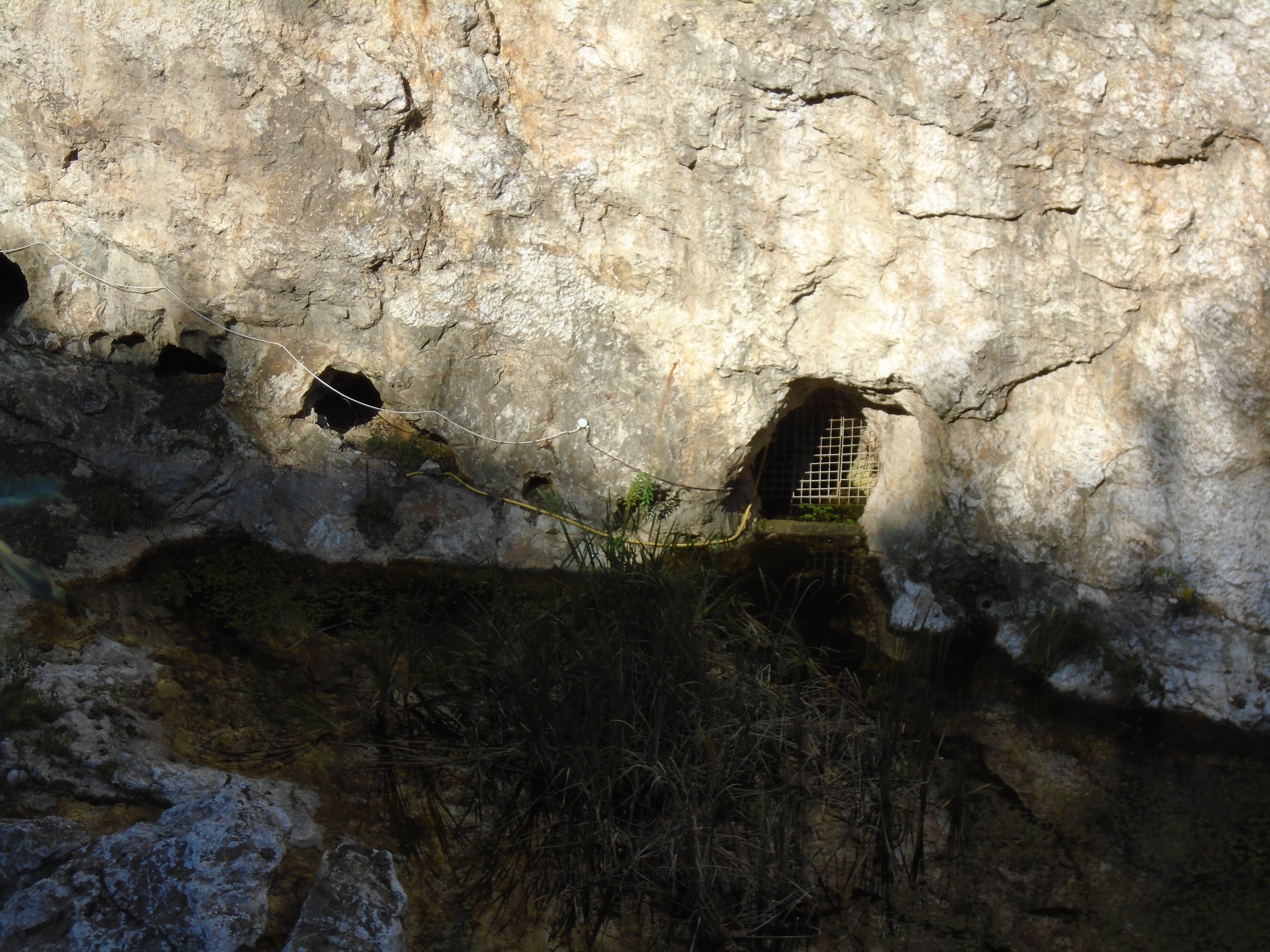 Entrance of Csókavári Cave in Üröm.